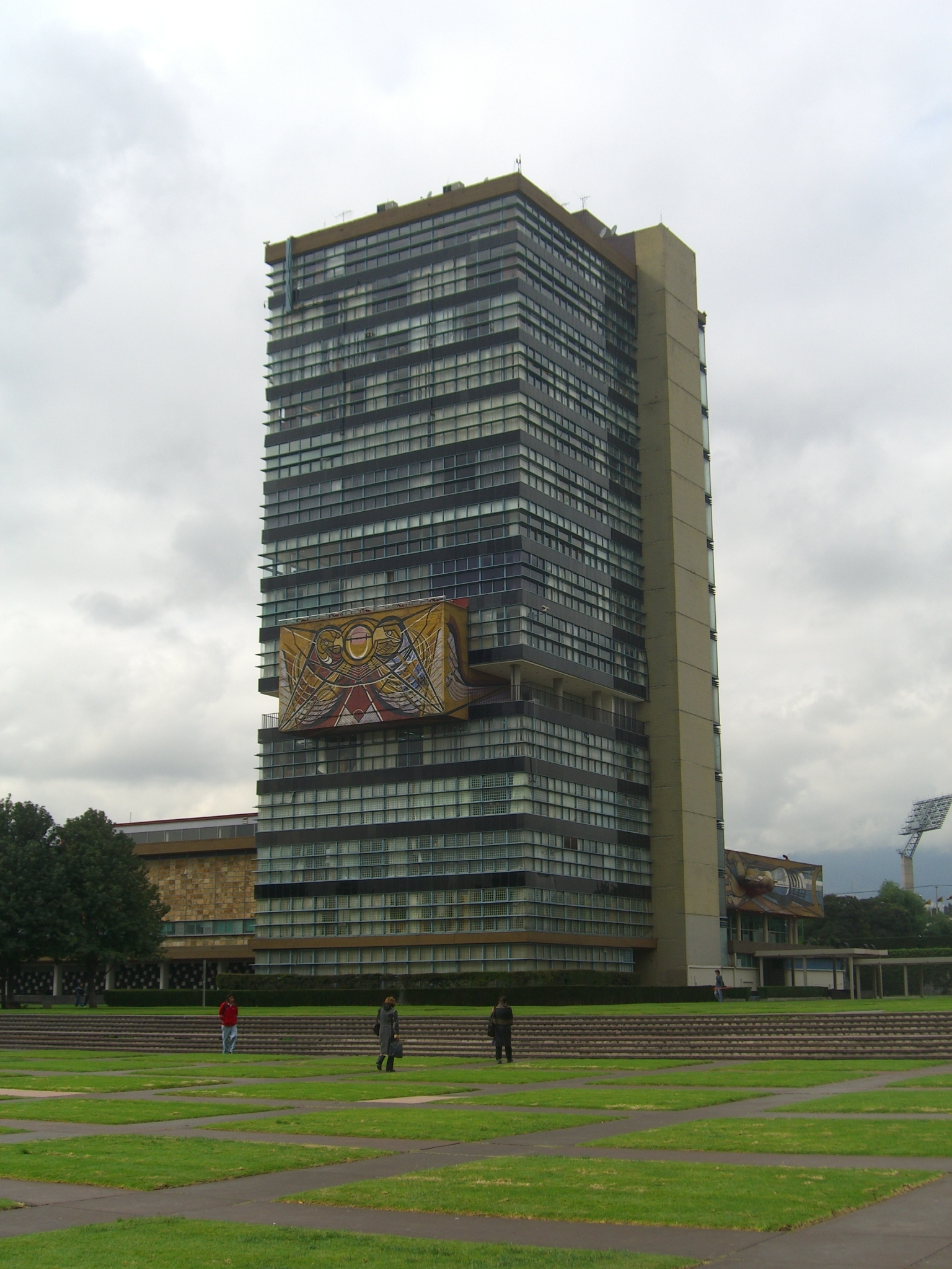 Administrative building of the National Autonomous University of Mexico on the campus of Mexico City.